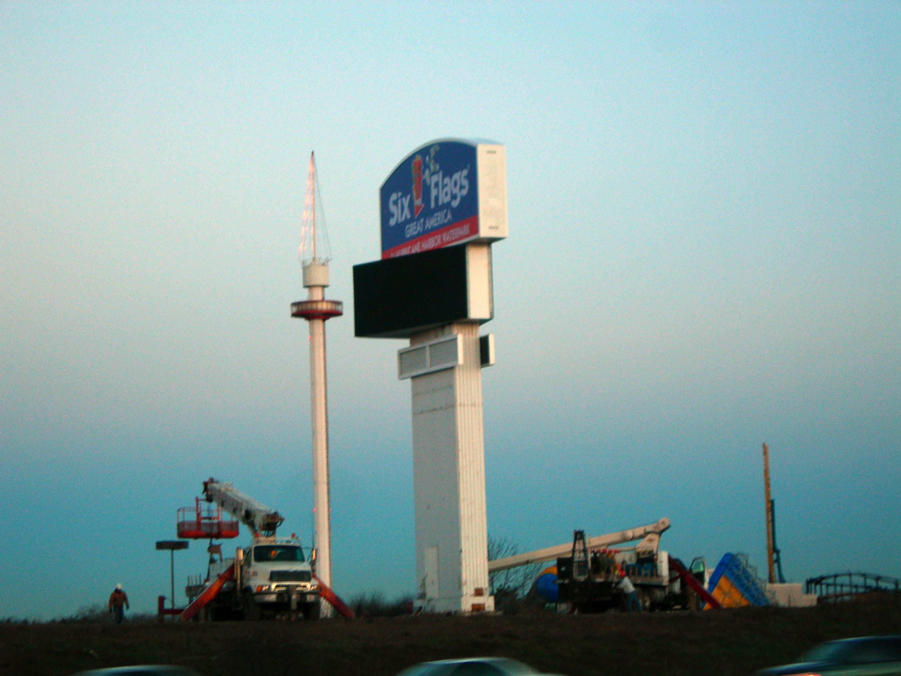 new sign at Six Flags Great America, Gurnee, Illinois